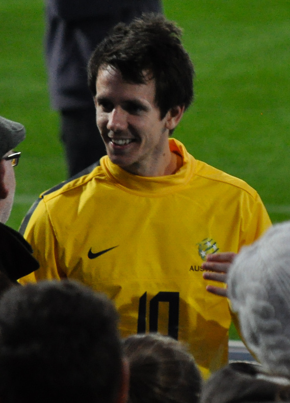 Robbie Kruse meeting the fans.